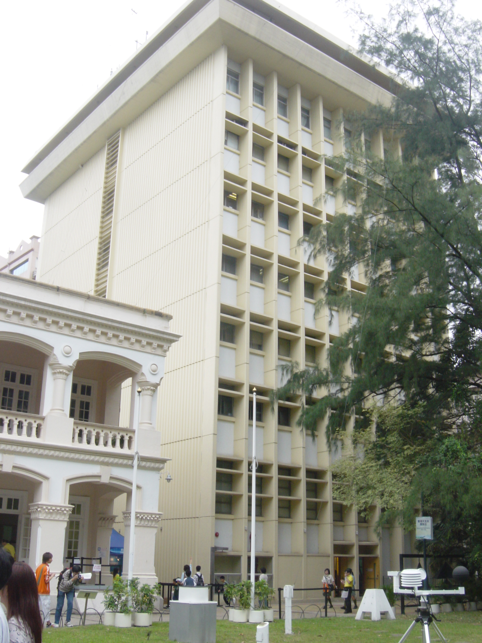 Open Day 2007 of The Hong Kong Observatory Headquarters.Centenary Building.